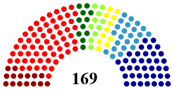 Chart of the Norwegian parliament (2005-2009).